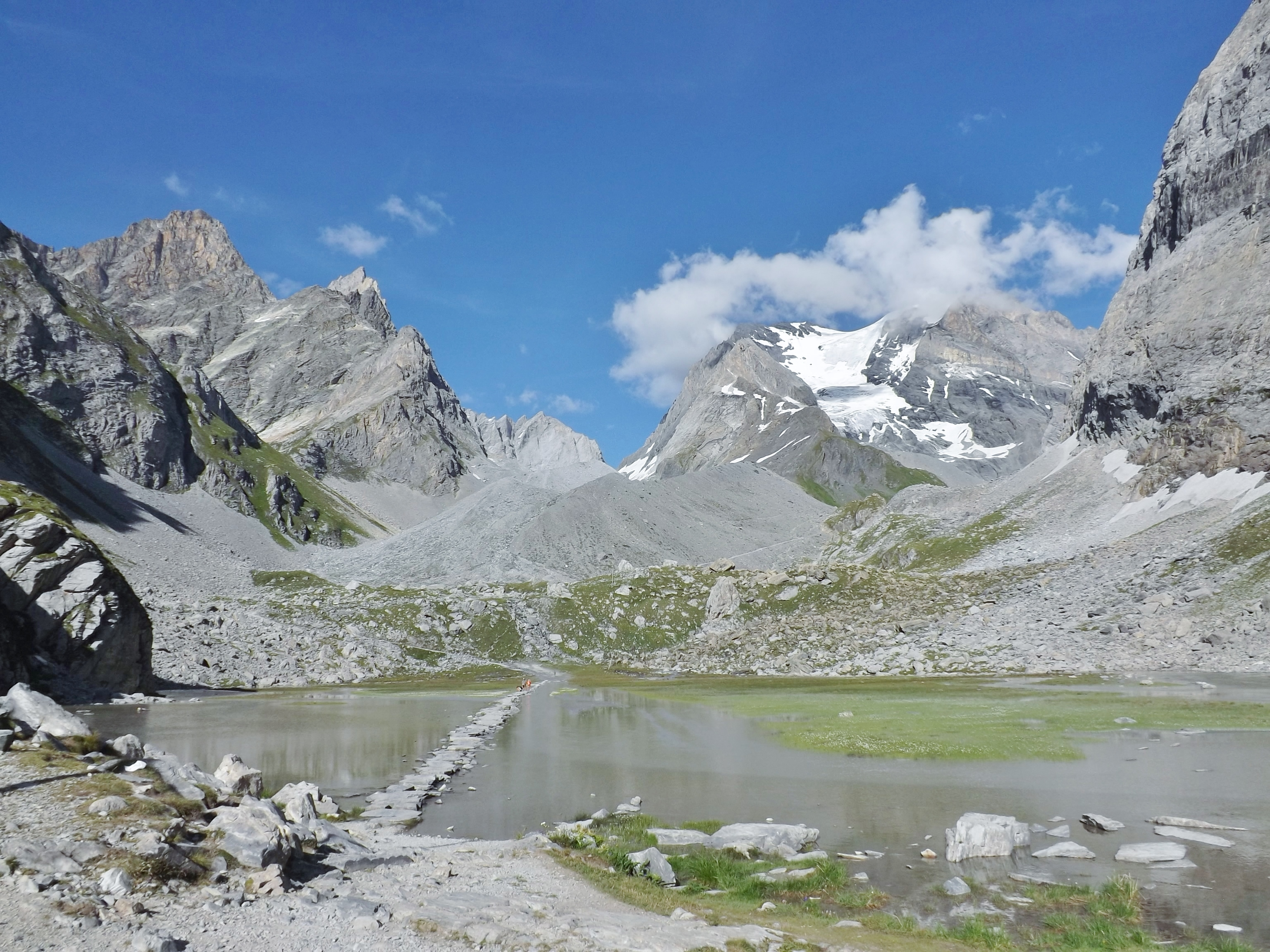 Sight of the lac des Vaches lake and its stone footway, at 2,318 meters high in the Vanoise national park in Savoie, France. At the background can be seen the Grande Casse (3,855 m high) and its glacier.